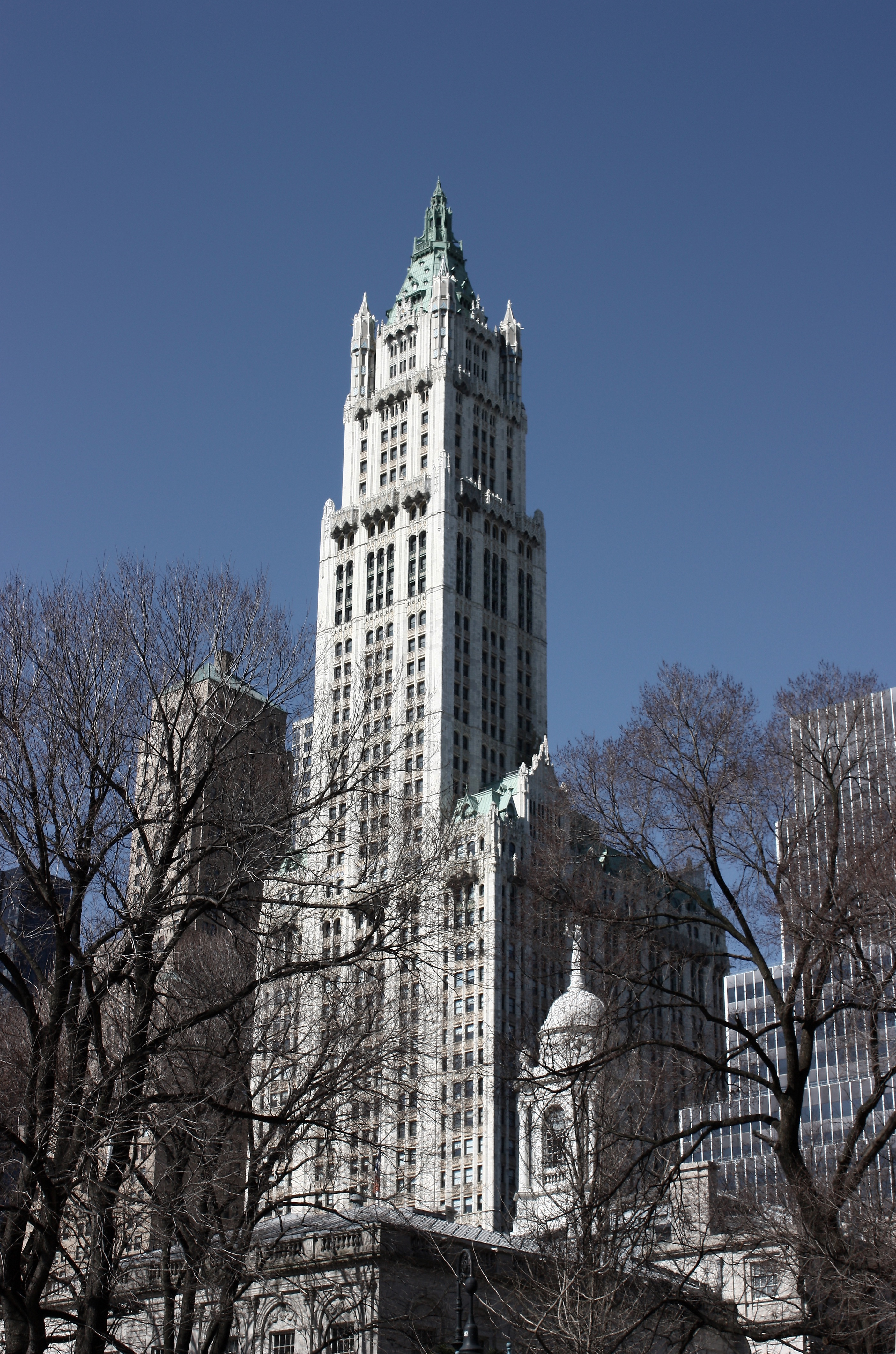 The Woolworth Building